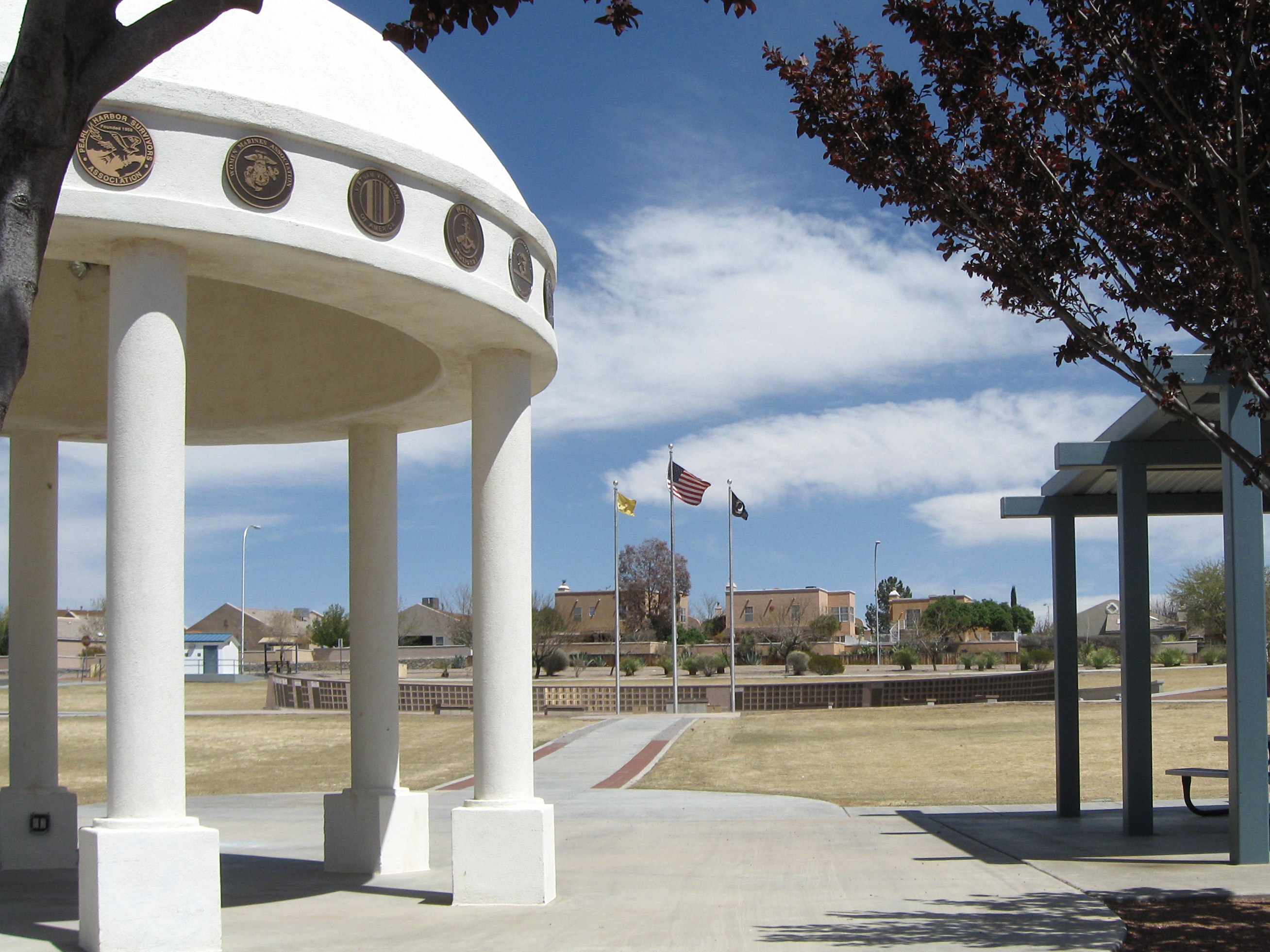 Veterans Memorial Park, a city park located at 2651 Roadrunner Parkway in Las Cruces, New Mexico. The park includes the gazebo shown at left and the Veterans Memorial Wall in the distance that lists residents of Doña Ana County who were veterans of past wars. Also at the park, but not visible in this photo, are a children's play area, and the sculpture and memorial walkway "Heroes of Bataan" by Kelley S. Hestir.